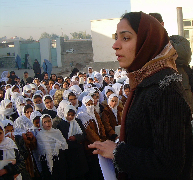 Feb.19, 2007: Malalai Joya visits a girl's school in Farah province in Western Afghanistan.